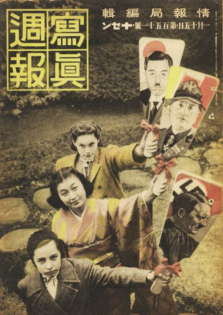 Shashin Shuho No 151 (January 15, 1941), Francesca (daughter of Italian military attaché Colonel Bertoni, holding the hagoita of Hitler), Akiko (grand-daughter of Japanese painter Jippo Araki, holding the hagoita of Mussolini) and Ursula (daughter of German ambassador major general Eugen Ott), holding the hagoita of Konoe)